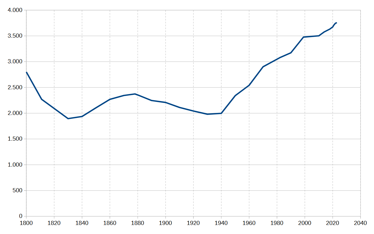 Historical population Ameland 1800–2018